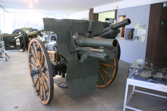 105 mm cannon 1935 Model (Bourges Short Gun) Breech-loading medium caliber short gun with a steel barrel. The dual trail gun mount is iron cast. With a wide traversing ability, this cannon was designed for destruction of lightly fortified strong points.